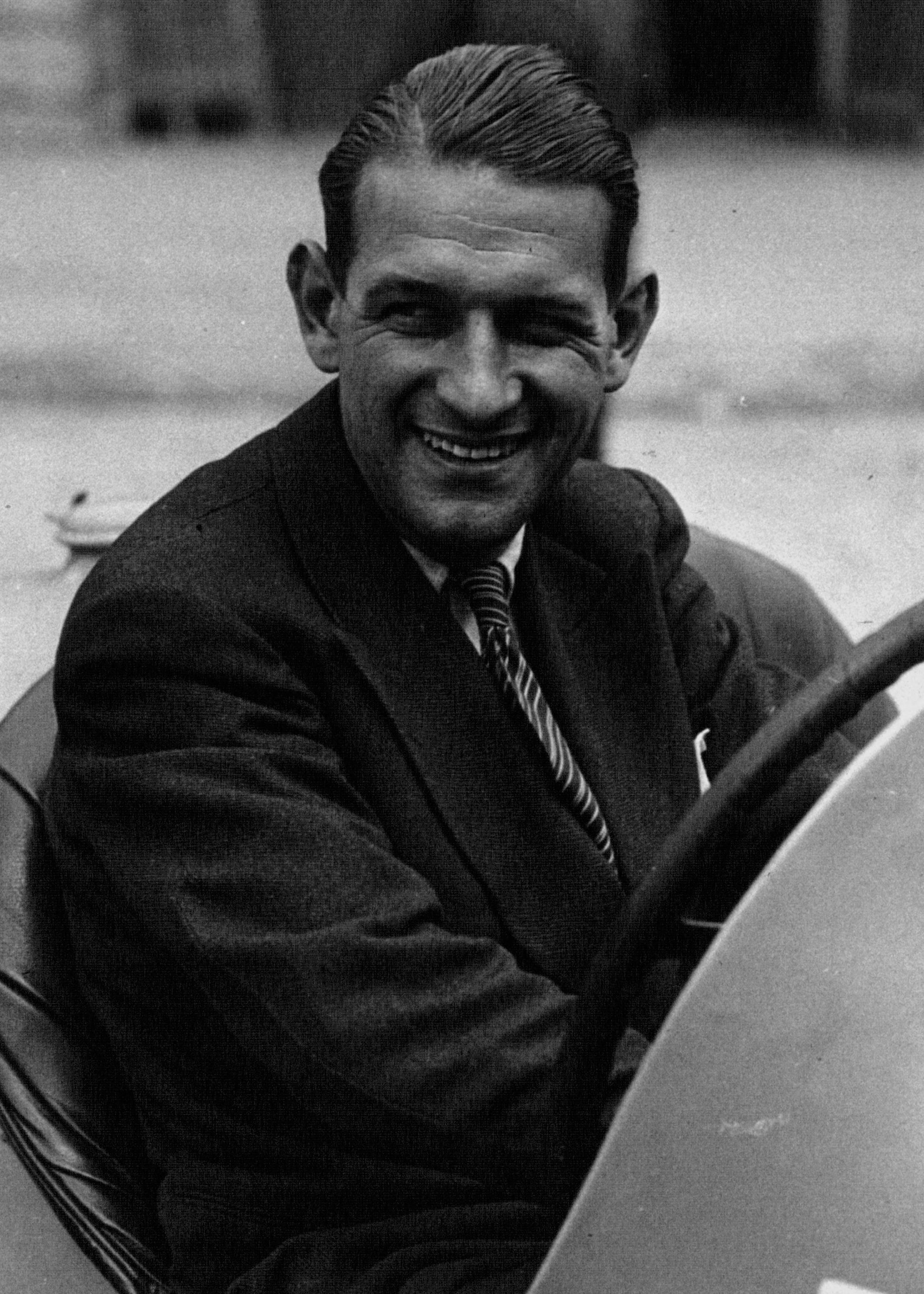 Raymond Sommer in Montlhéry with Alfa Romeo Monza 2.3